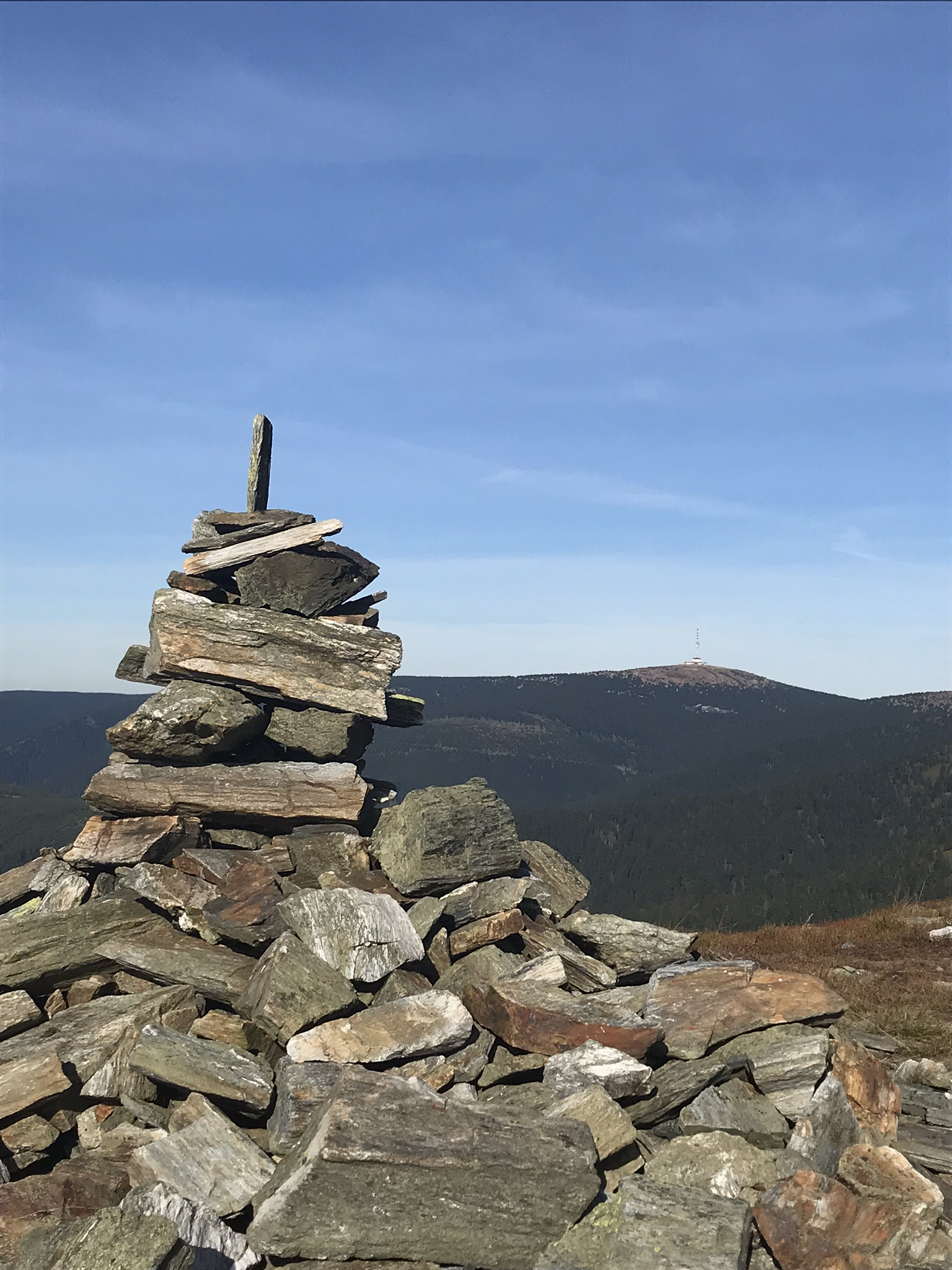 Shaly mountain